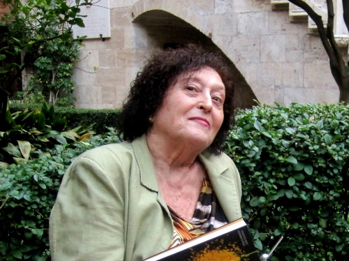 María Teresa Espasa Moltó, June 2014, Llotja de la Seda Gardens, Valencia